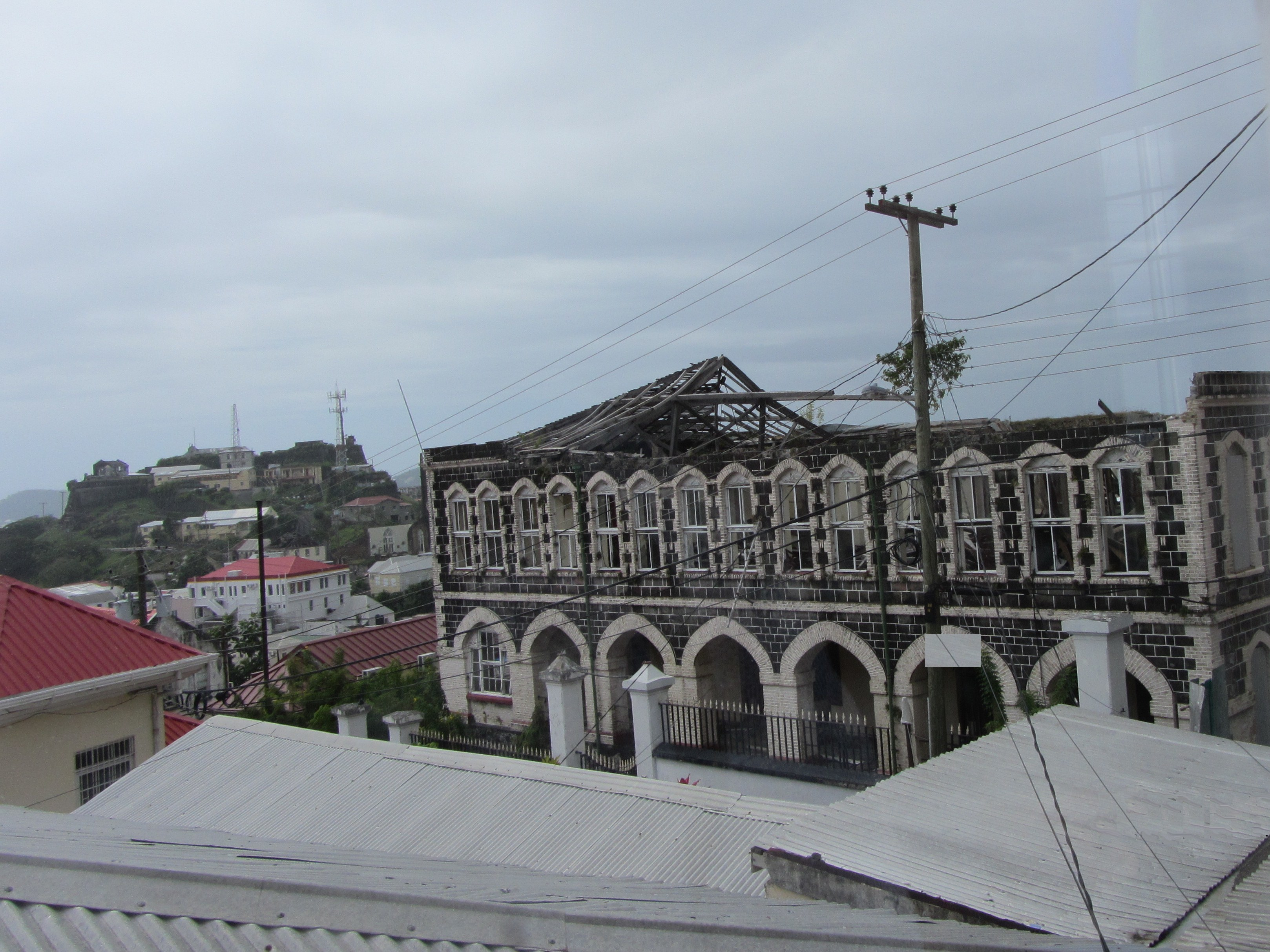 The Ruins of the Parliament House seen from the window of the Cathedral in St. George's, Grenada